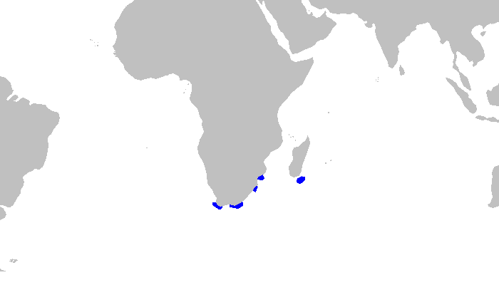 Distribution map for Pliotrema warreni